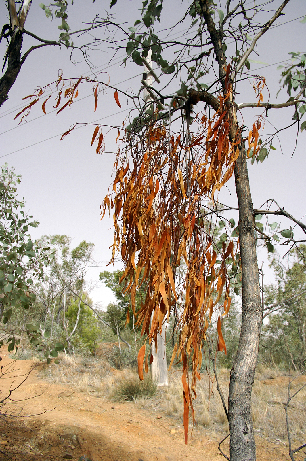 A dead Amyema pendula (Drooping Mistletoe) on a Eucalyptus polyanthemos (Red Box) located on Willans Hill Reserve in Wagga Wagga, New South Wales, Australia.